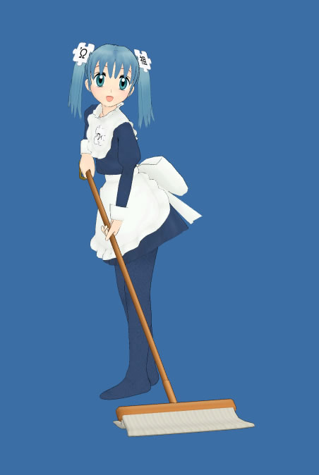 A snapshot of a 3D model of Wikipe-tan made with "Metasequoia". The model itself can be downloaded on the source site given below, and the file can be opened with mmViewer.